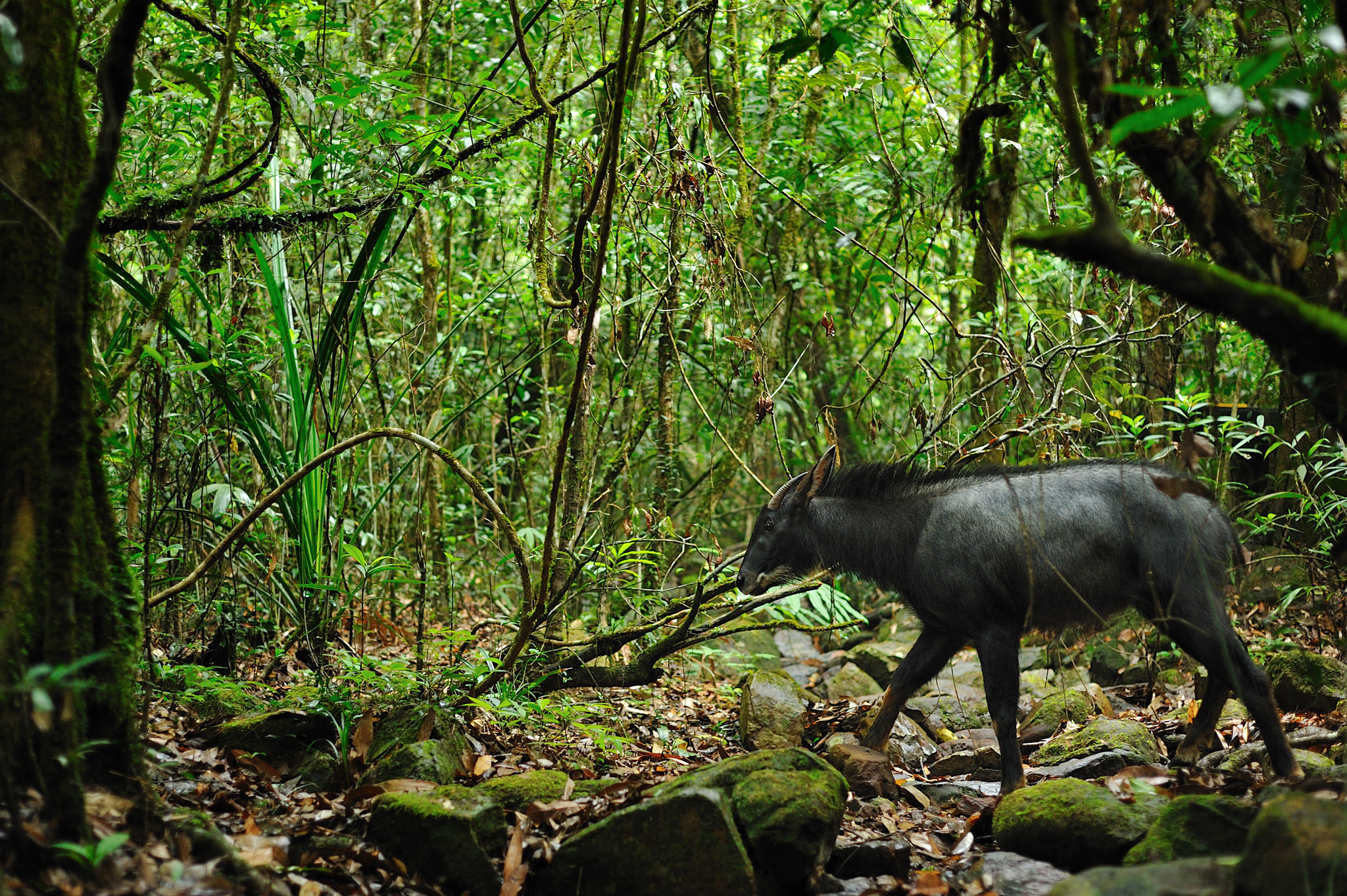 Indochinese Serow, in hill evergreen forest. Indochinese Serow, Capricornis maritimus in Khao Yai national park, Thailand.